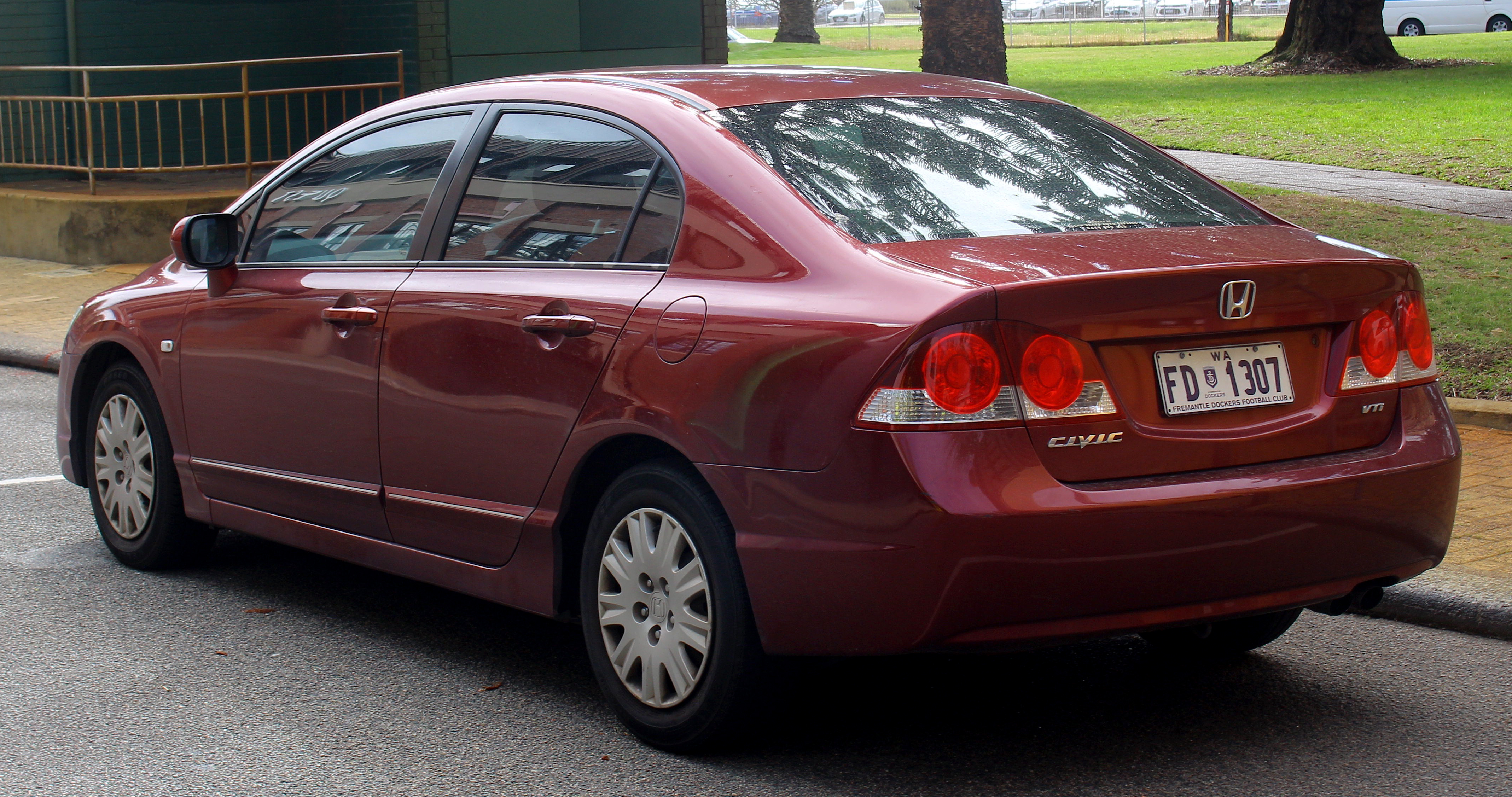 2006-2009 Honda Civic VTi sedan. Photographed in Fremantle, Western Australia, Australia.